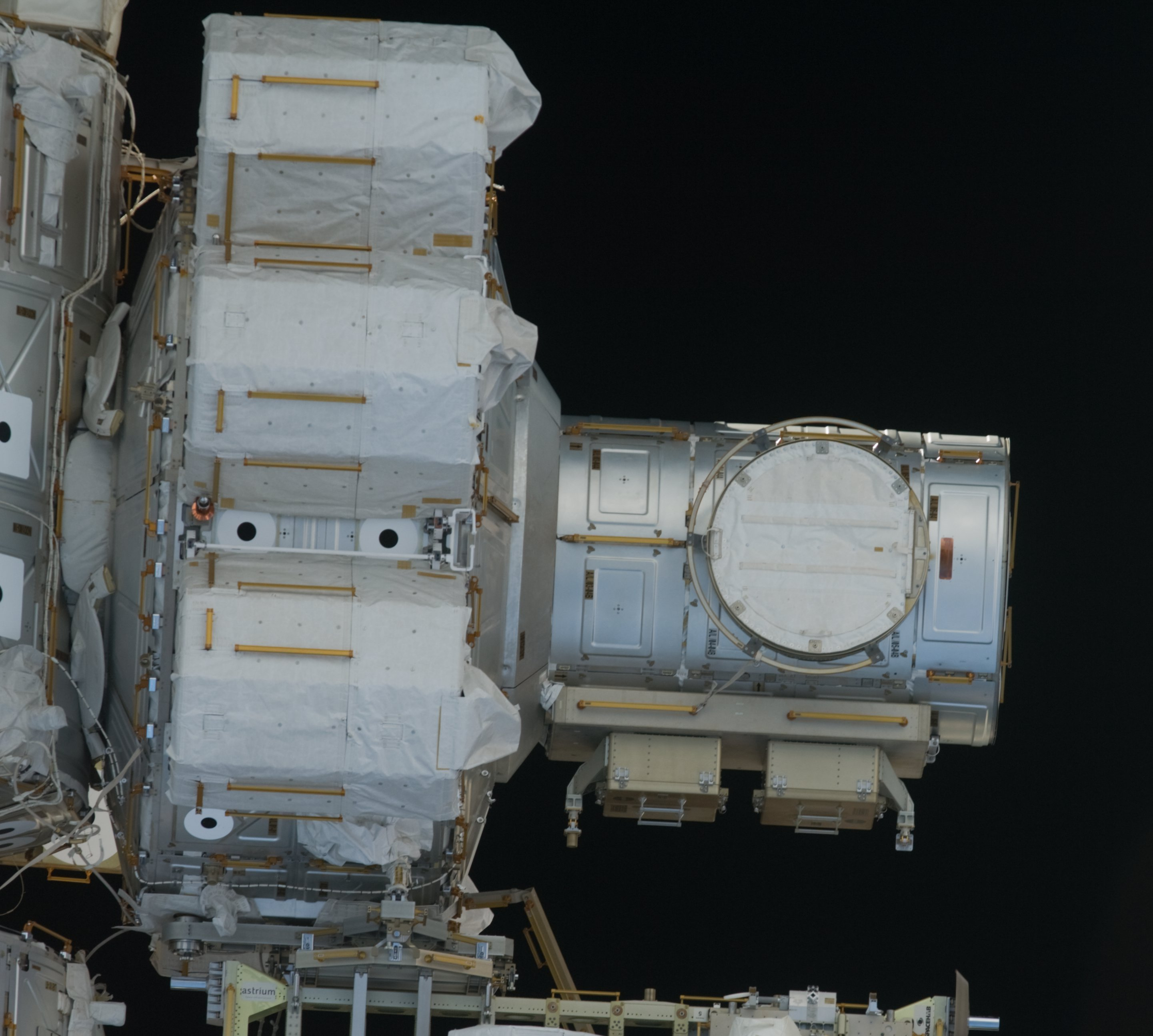 View of the International Space Station (ISS) during arrival of STS-127 Space Shuttle Endeavour. Nadir side of the Airlock (A/L) is visible.